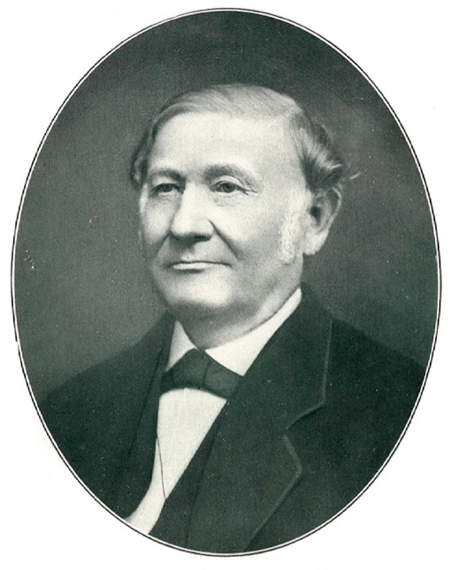 A portrait photo of Swedish bank director Samuel Herman Hafström, founder of Hälsingborgs Bryggeri (the old Helsingborg Brewery).